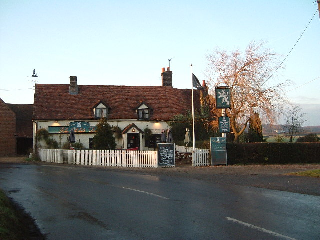 The White Lion, St. Leonards. This pub is on a bend in the lane and just sneaks into square SP9106.